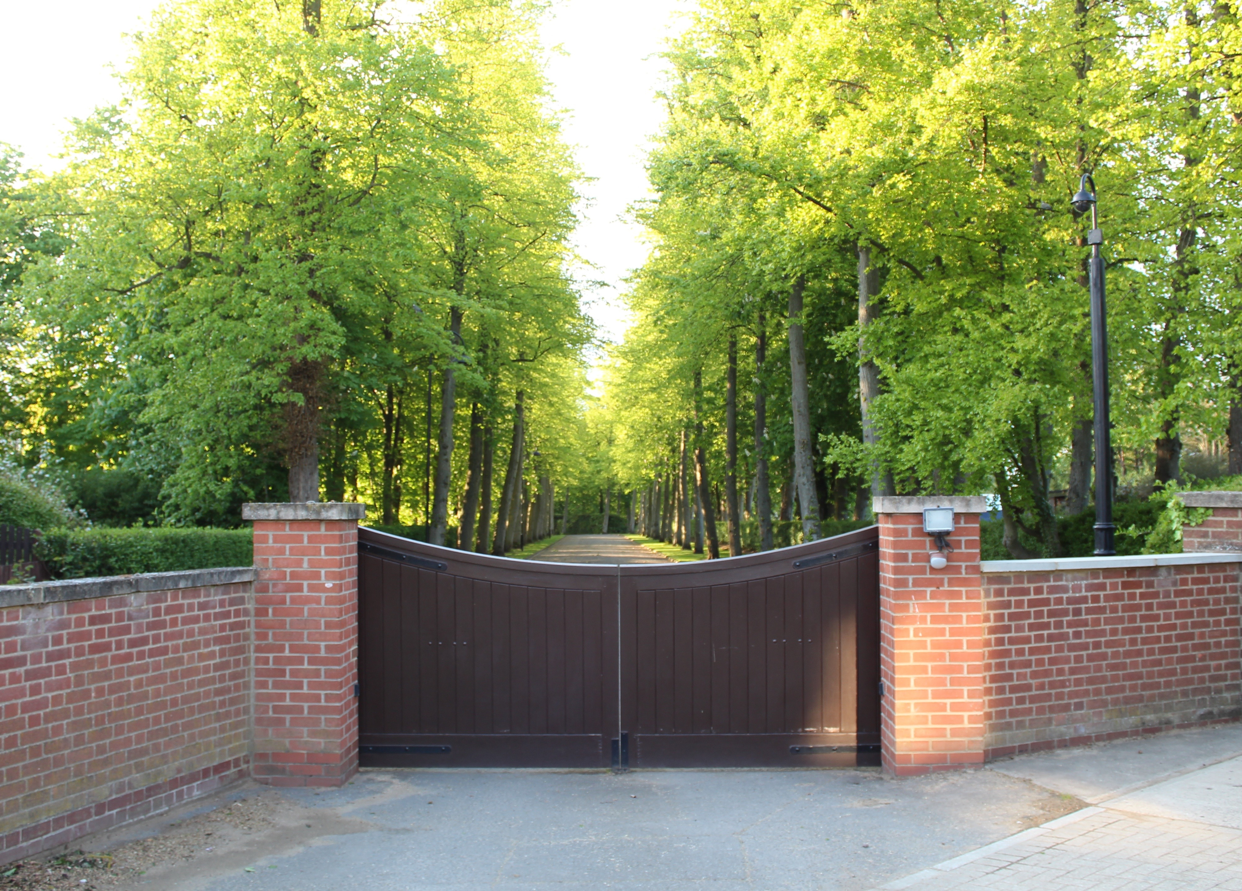 Godolphin Stables inNewmarket, UK